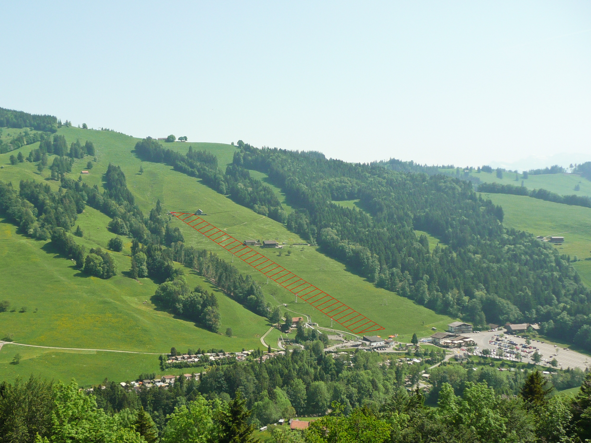 Atzmännig, grasski slope marked.